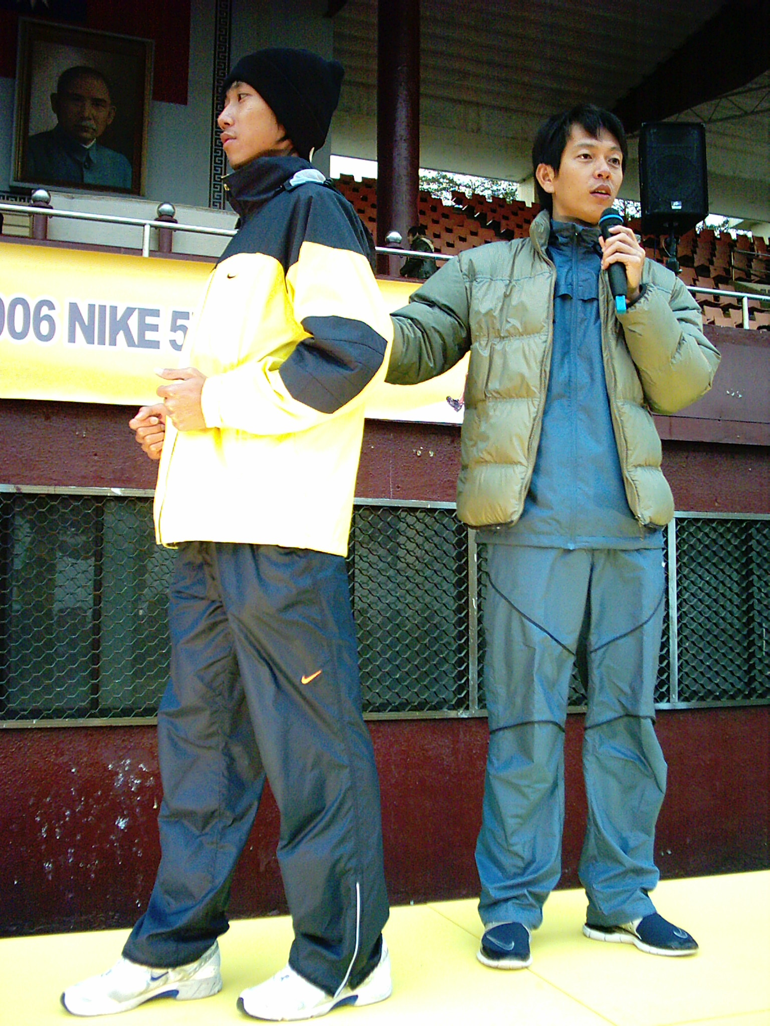 Nike 5K Run Training: Trainer told runners the right method to keep correct running stances.中文（台灣）: Nike 5K Run訓練營的田徑講師（右）告知現場參與訓練活動的跑者，正確的跑步方式